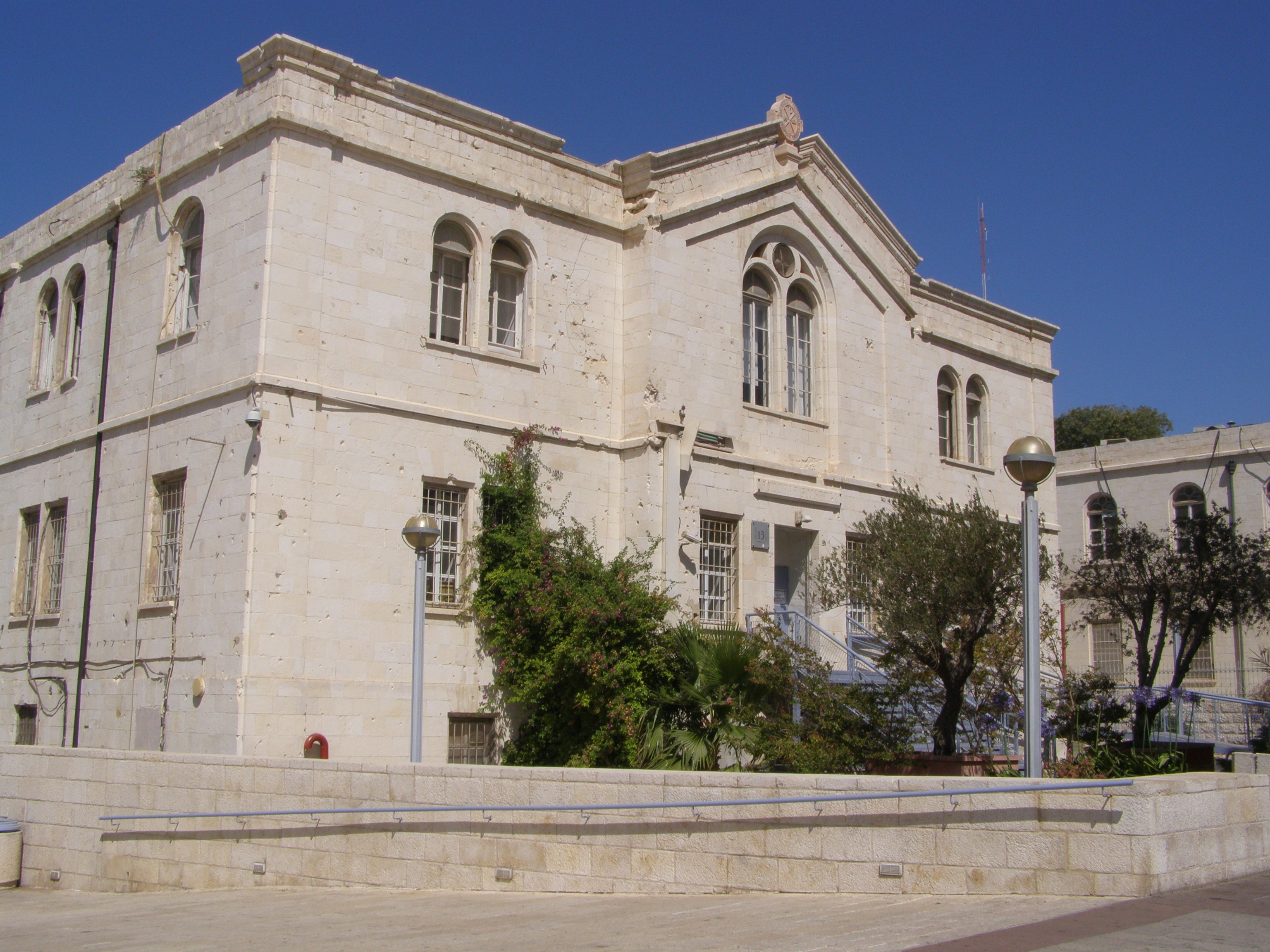 Jerusalem, Russian Compound, hospital